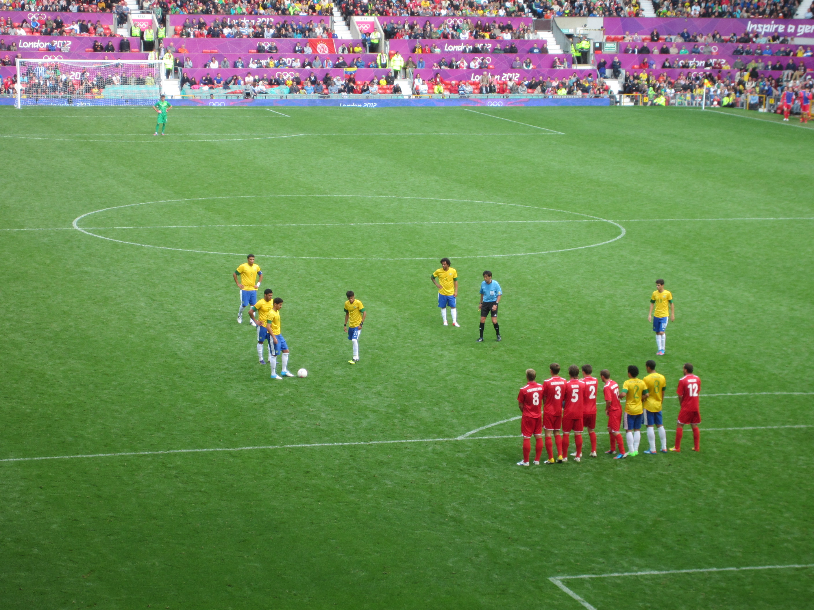 Brazil players at the 2012 Olympics in Old Trafford.